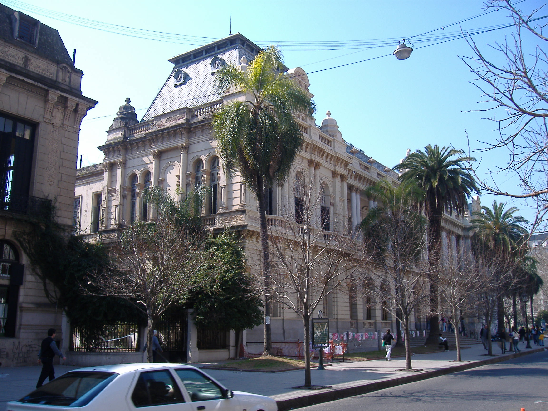 Faculty of Law of the National University of Rosario, Argentina, on the Paseo del Siglo historic district.